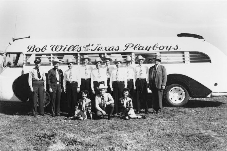 Publicity Photo of Bob Wills & his Texas Playboys